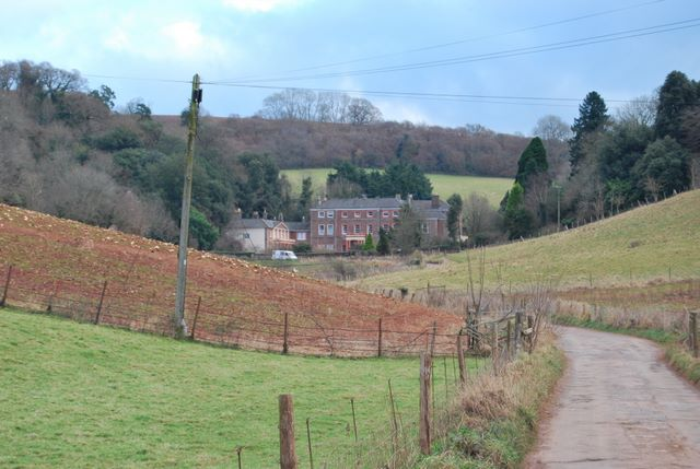 Haccombe House Looking along the valley towards Haccombe House.